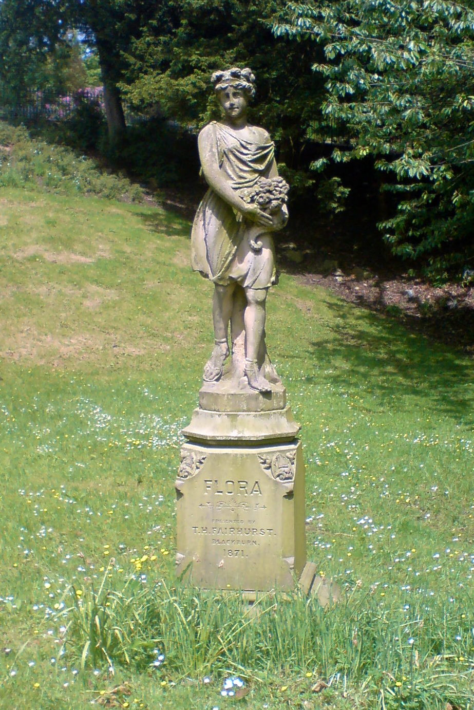 Statue of Flora in Corporation Park, Blackburn. "Presented by T. H. Fairhurst. Blackburn. 1871"